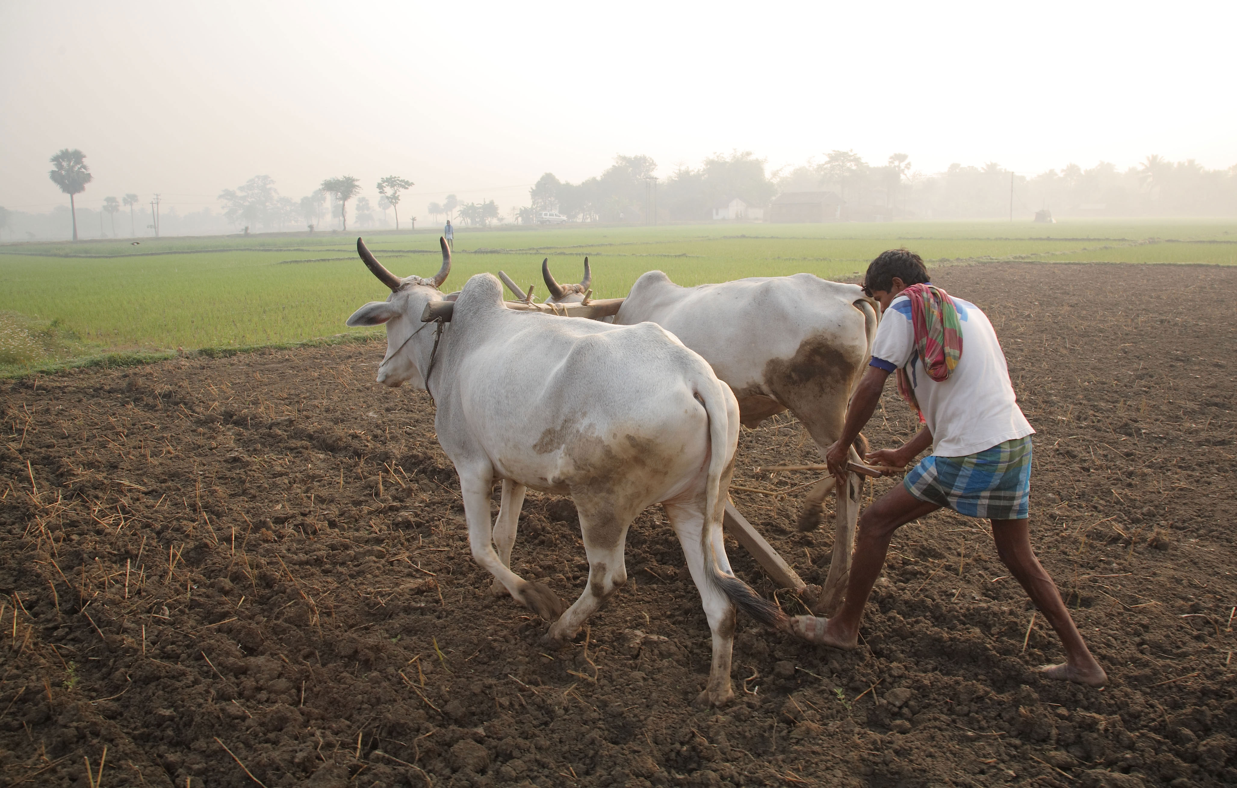 A farmer ploughs his field with oxen in Kadmati Village, Brahampur, West Bengal, India.